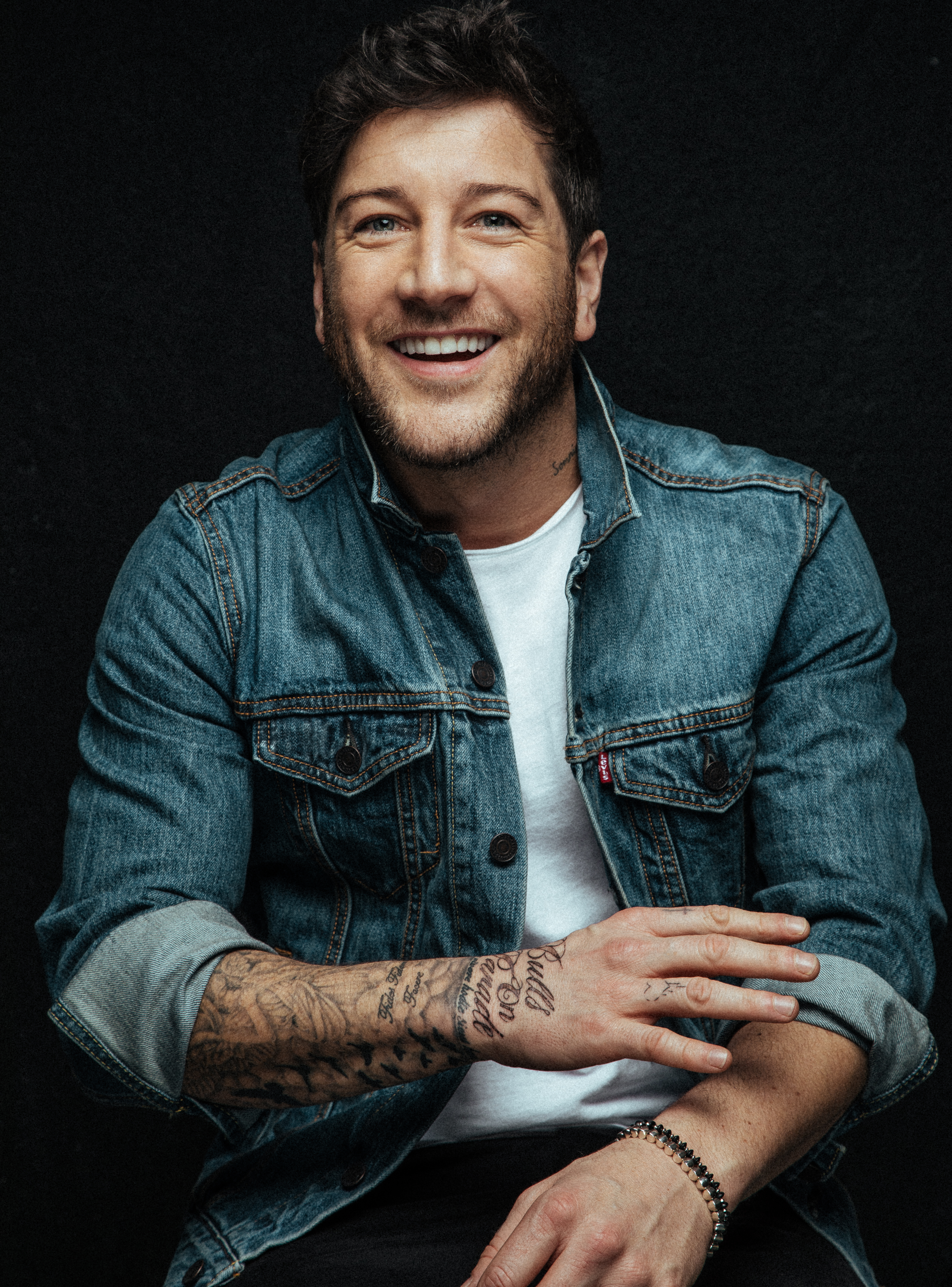 Matt Cardle Sony Music publicity image 2018.